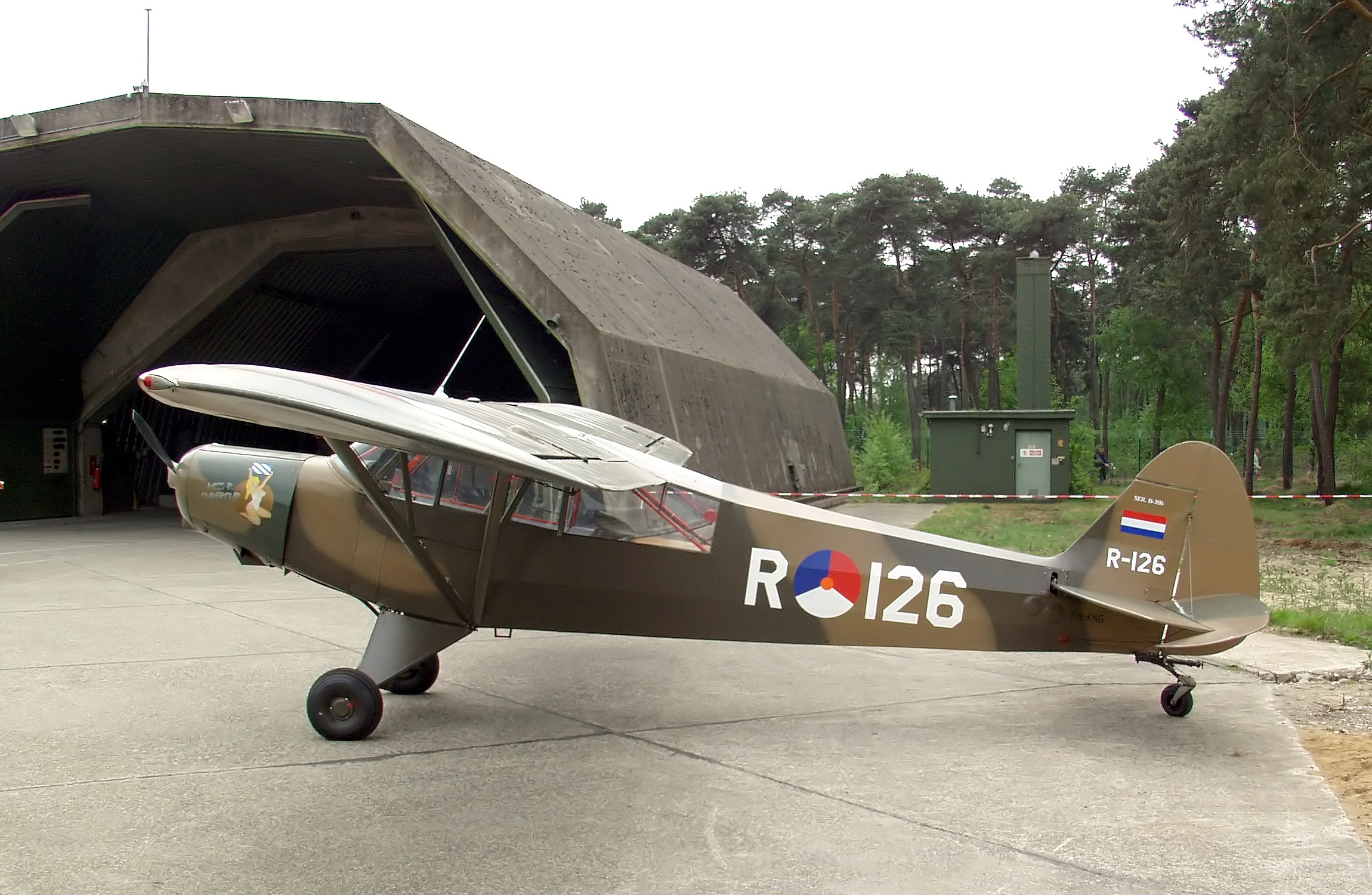 Piper L-21B Super Cub (R-126) at Airport Niederrhein